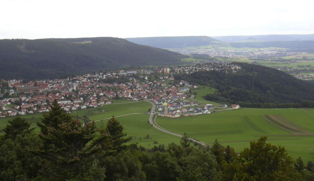 View of Gosheim from the Lemberg hill, Germany, in the background Denkingen and Spaichingen can be seen.